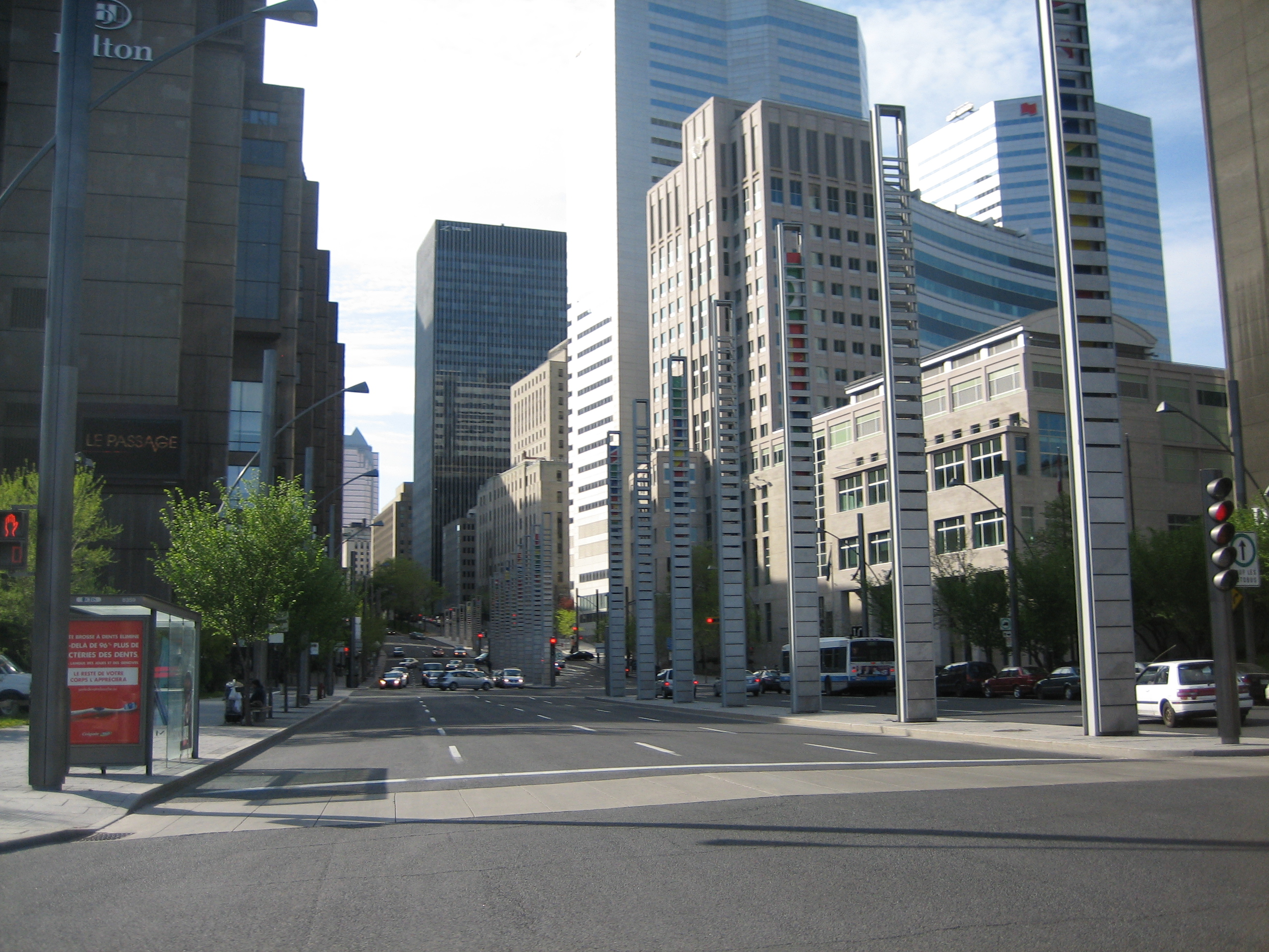 i took this when driving downtown